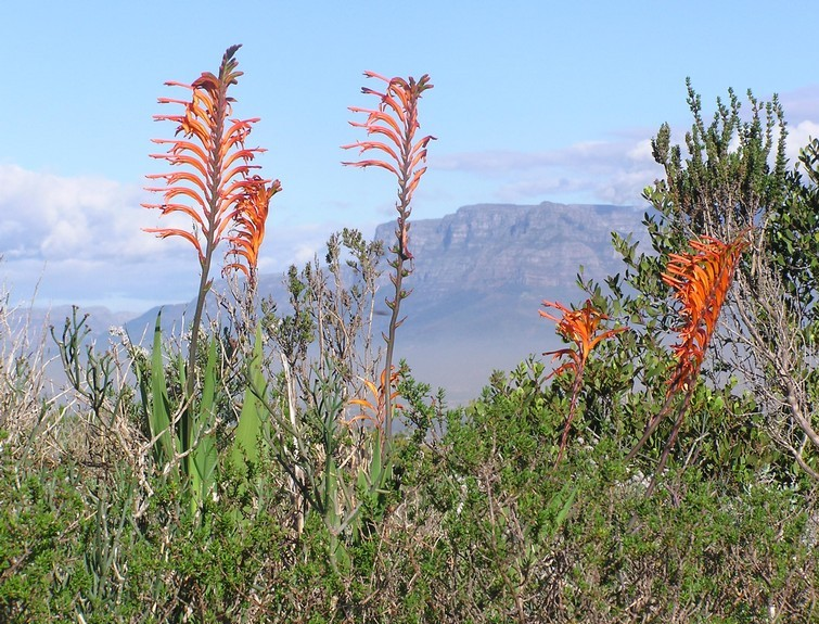 Swartland Shale Renosterveld growing at Tygerberg Nature Reserve in the city of Cape Town. South Africa.